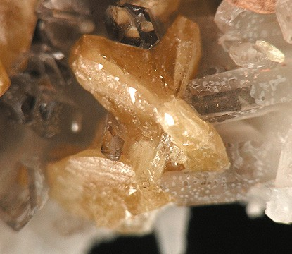 Monazite-(Ce), Quartz Locality: Siglo Veinte Mine (Siglo XX Mine; Llallagua Mine; Catavi), Llallagua, Rafael Bustillo Province, Potosí Department, Bolivia (Locality at ) Size: 3.5 x 2.6 x 1.3 cm. Monazite gets its name from the Greek word "monazein", which means "to be alone", in allusion to its isolated crystals and their rarity when first found. Monazite is usually found in granitic pegmatites, but these crystals are found in hydrothermal tin veins where is an absolute absence of Thorium (usually a trace element in Monazite). This is a remarkable, very well crystallized, ridiculously rare, specimen consisting of sharp, lustrous, translucent, orange-pink, twinned crystals on Monazite-(Ce) measuring up to 5 mm on Quartz crystals on matrix. The crystals actually perform a color change in different lighting ranging from orange-pink to a white/yellow depending upon the light source (more pink indoors). This piece is from the same mine at which this material was discovered along the Contacto and San Jose veins in this mine and was first described by Sam Gordon and Mark Bandy.